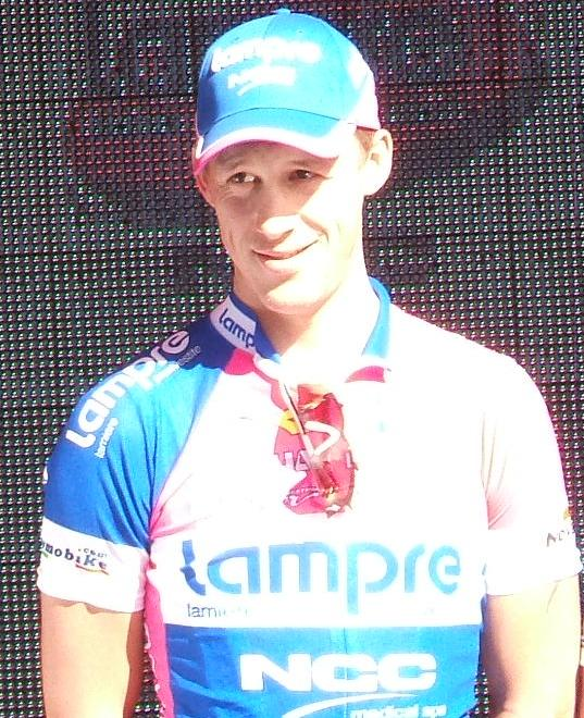 Named cyclist at the en:2009 Tour Down Under team presentation